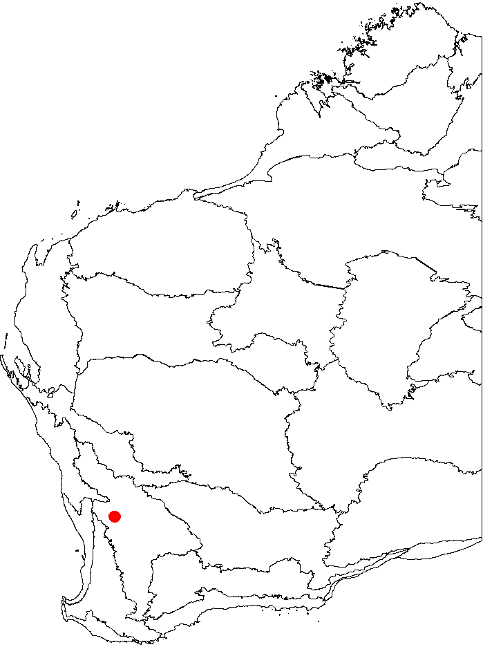 This is a map of Western Australia, showing the distribution of Banksia wonganensis on a map of the IBRA 6.1 biogeographic regions.